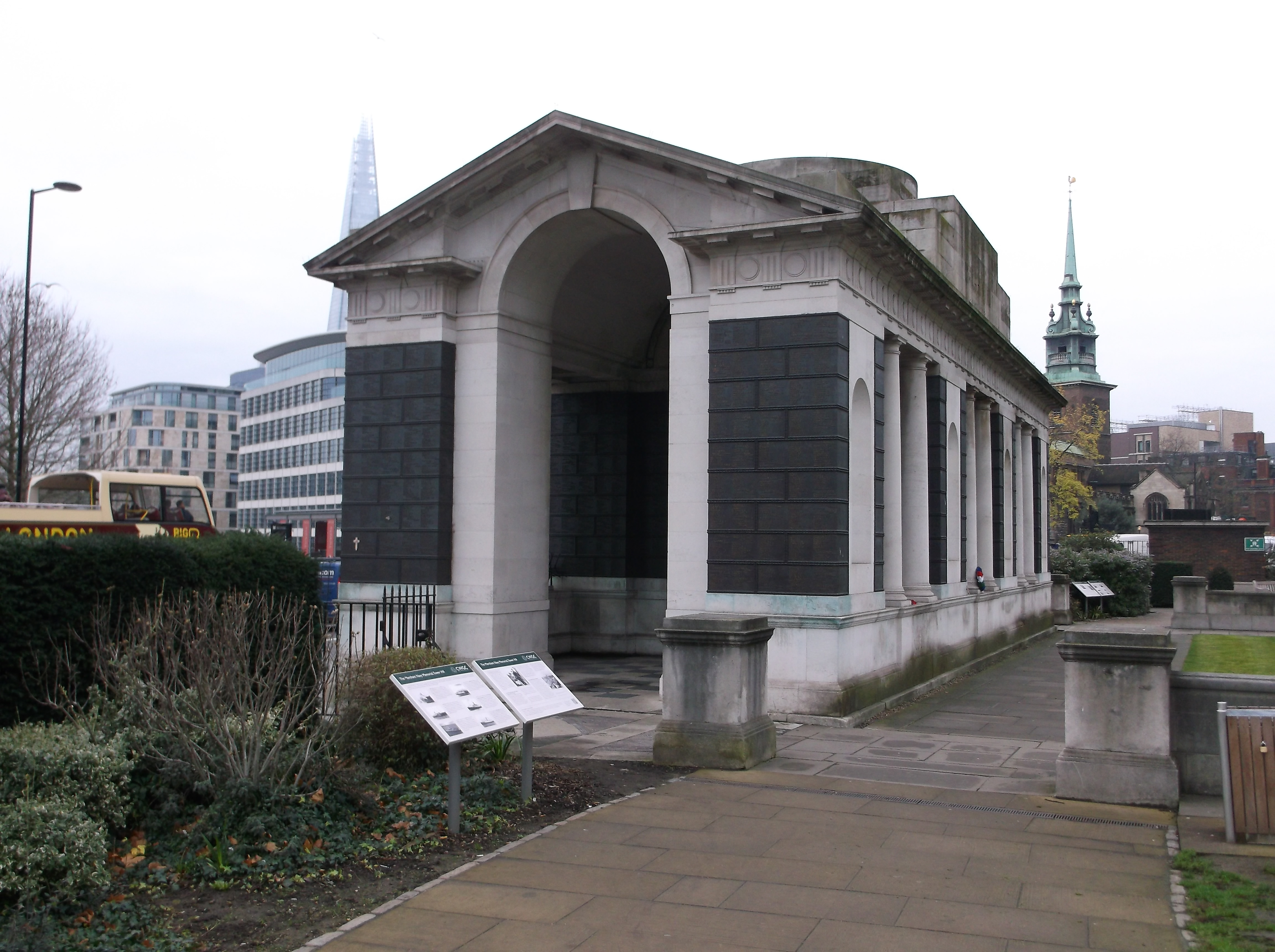 Commonwealth War Graves Commission memorial to merchant seamen lost at sea during the world wars, Tower Hill, London